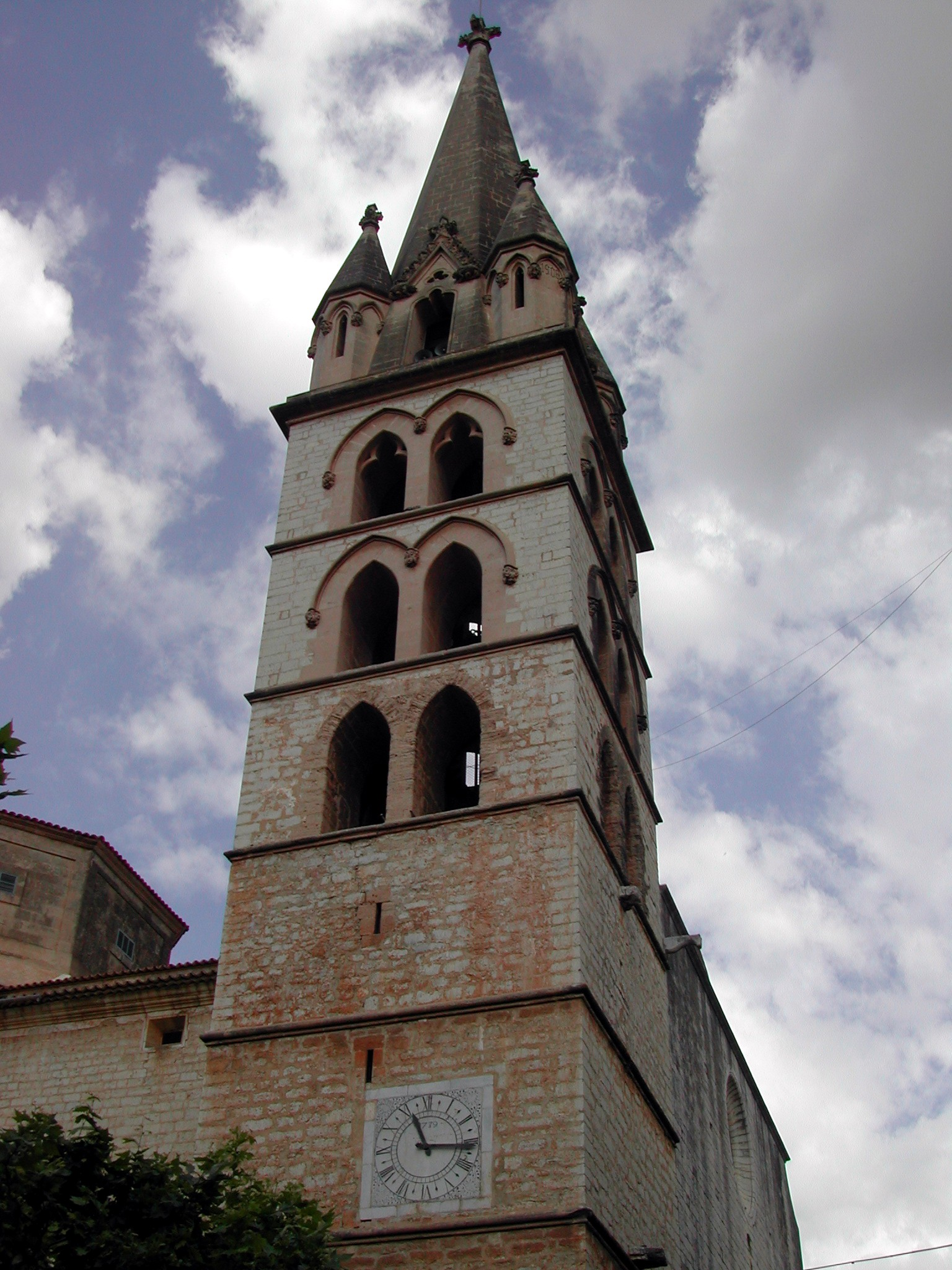 Binissalem bell tower, Mallorca.